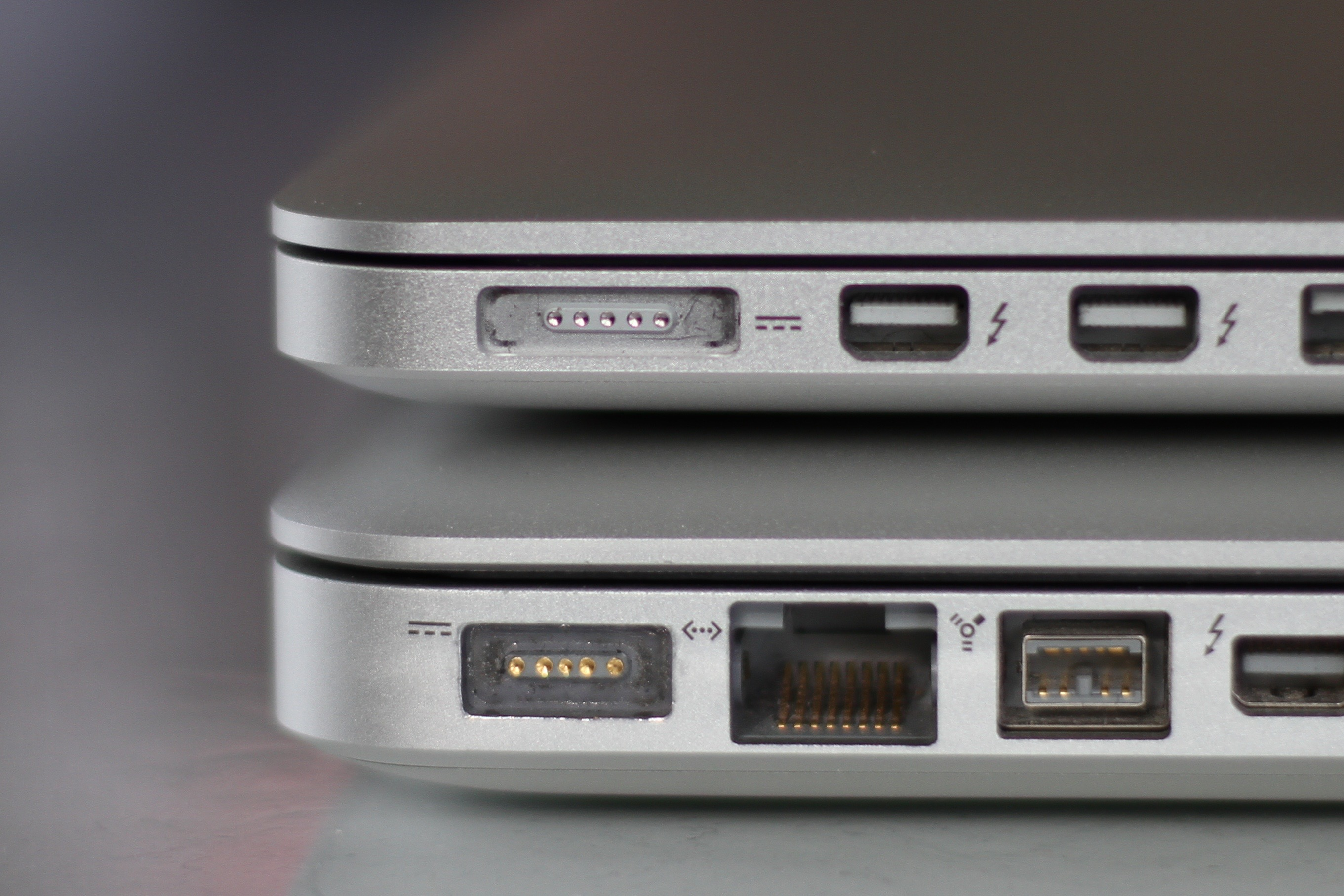 Comparison between MagSafe 1 and 2